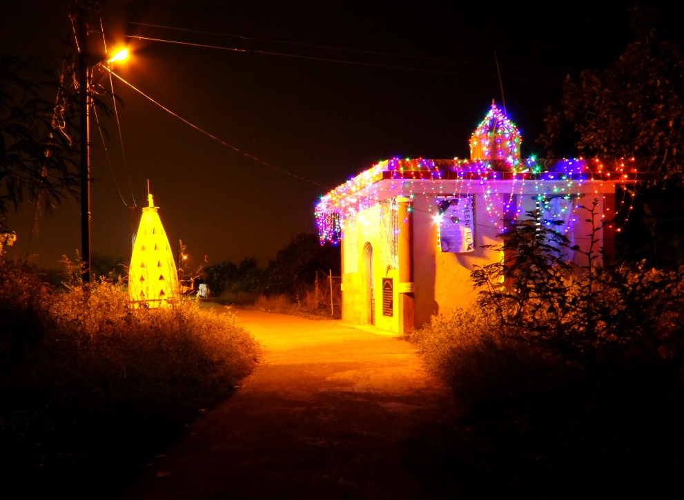 Temple at Naigaon Jetty during Diwali